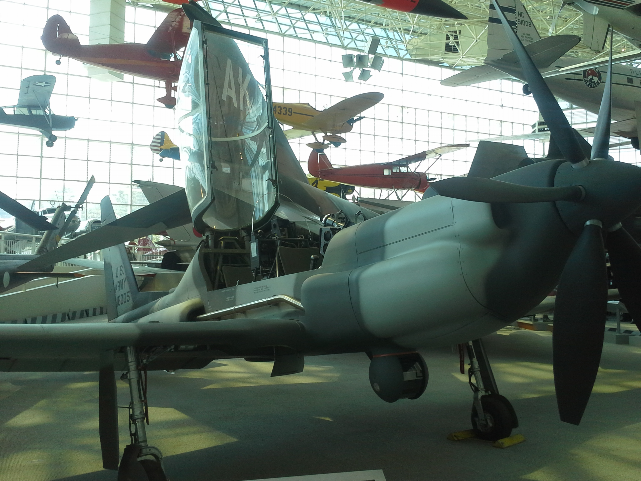 Lockheed YO-3A stealth observation plane at the Museum of Flight in Seattle